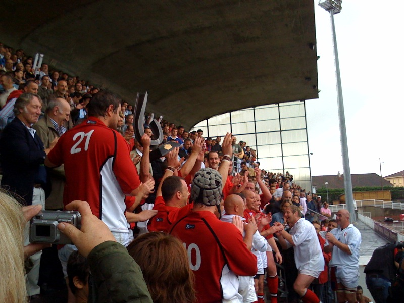 Mr JPR Williams at the France vs British Lions Classic match in Mont de Marsan. The British Lions team lifts the trophy after beating the French team in Mont de Marsan.